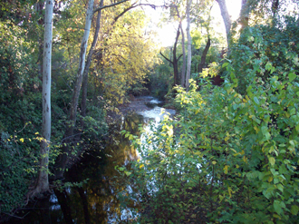 This is an image of Little Chico Creek in Chico taken from the bridge on Chestnut Street just south of Highway 32 looking westward. (2008)